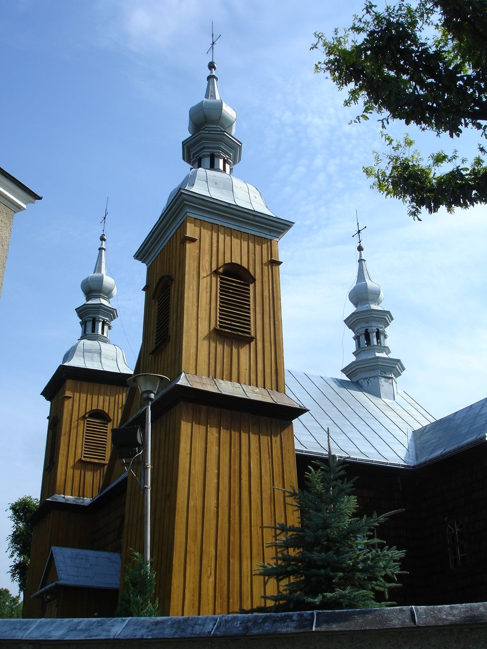 latin parish church in Jaćmierz